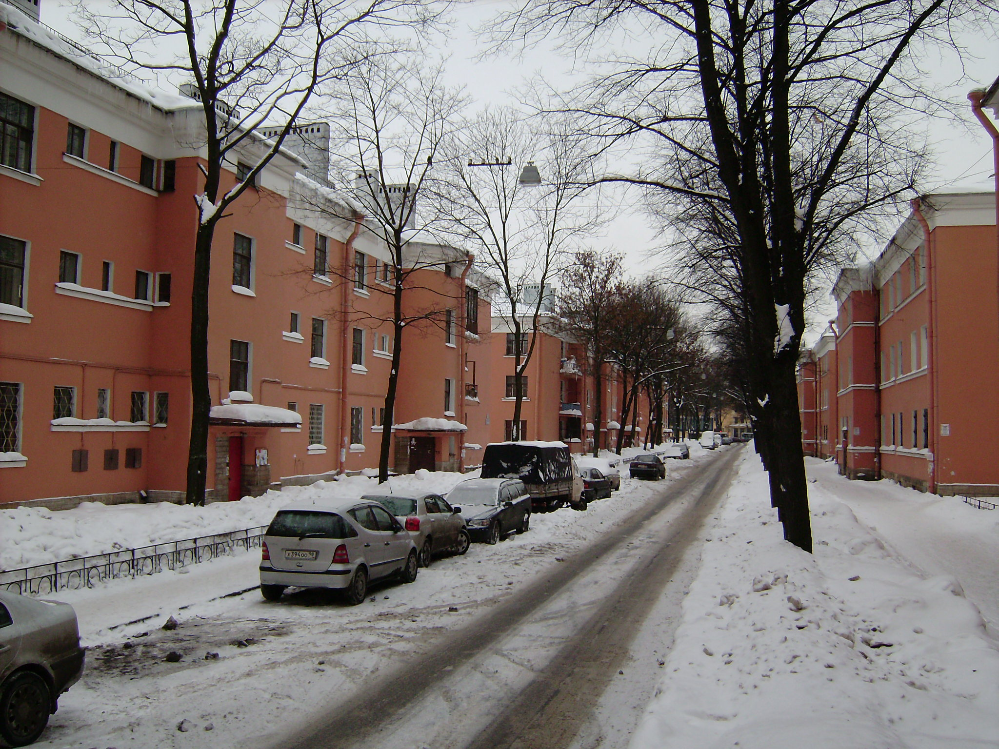 Traktornaya street in St. Petersburg